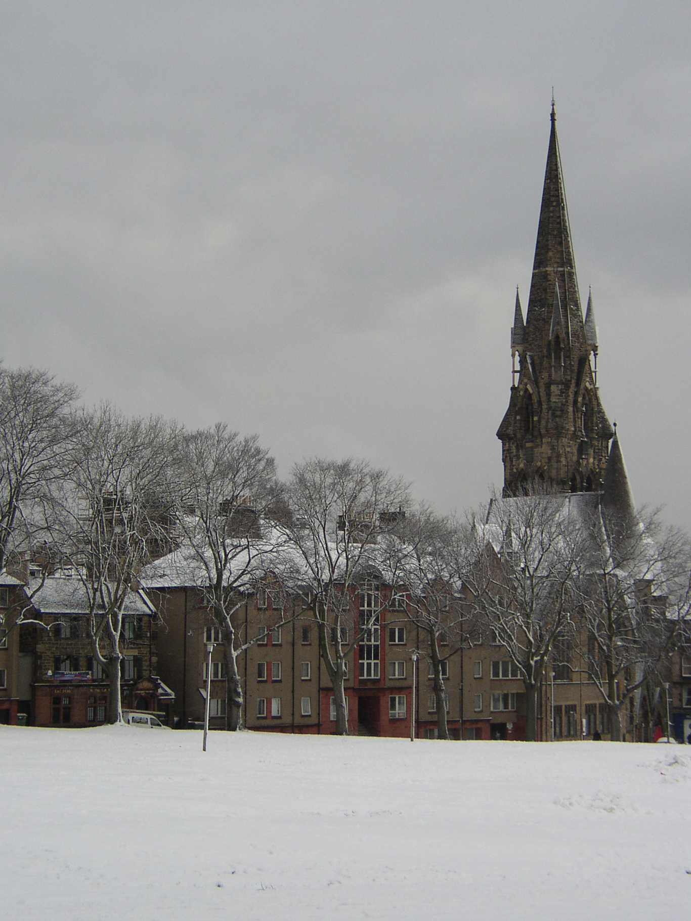 I've been living in Edinburgh now for two years and visiting people here for another two before that. It may only be an inch or two of the stuff, but this is the first time I've ever seen enough snow to actually turn the ground white. It's beautiful.Snow on Bruntsfield Links - Barclay Church